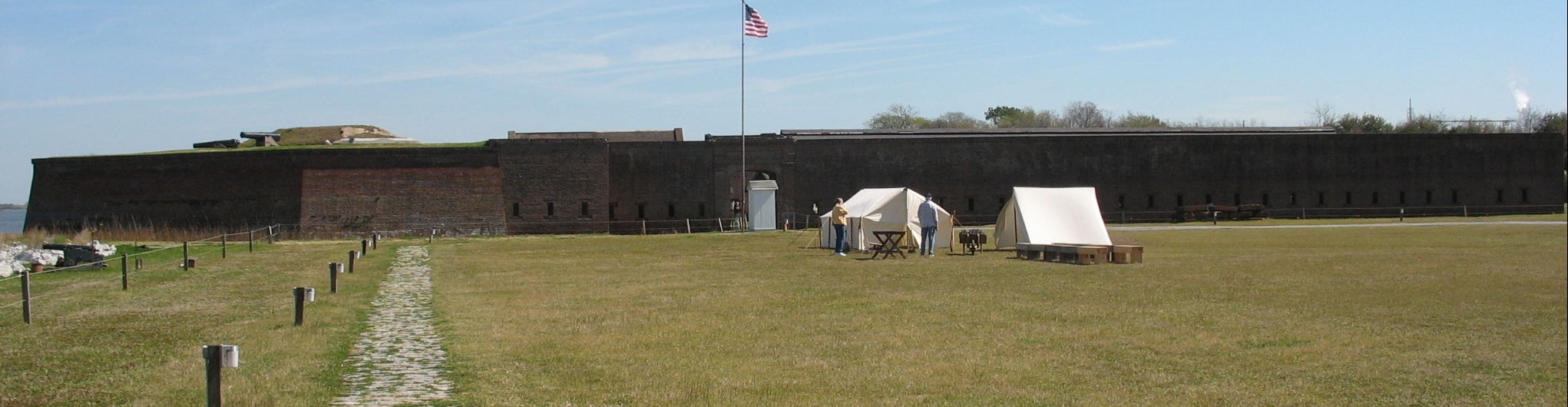 Fort Jackson, Georgia, USA